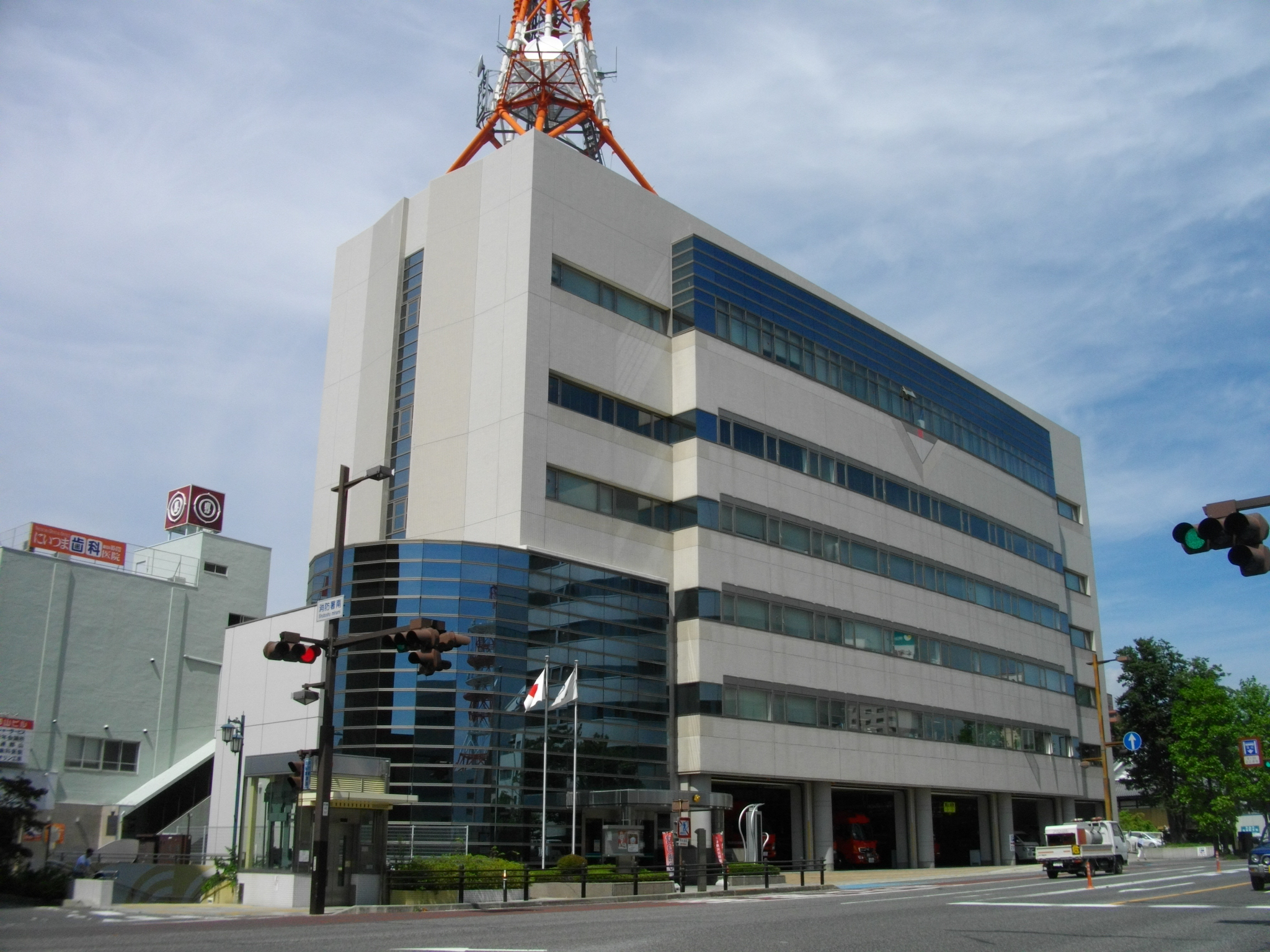 Koriyama Fire Department